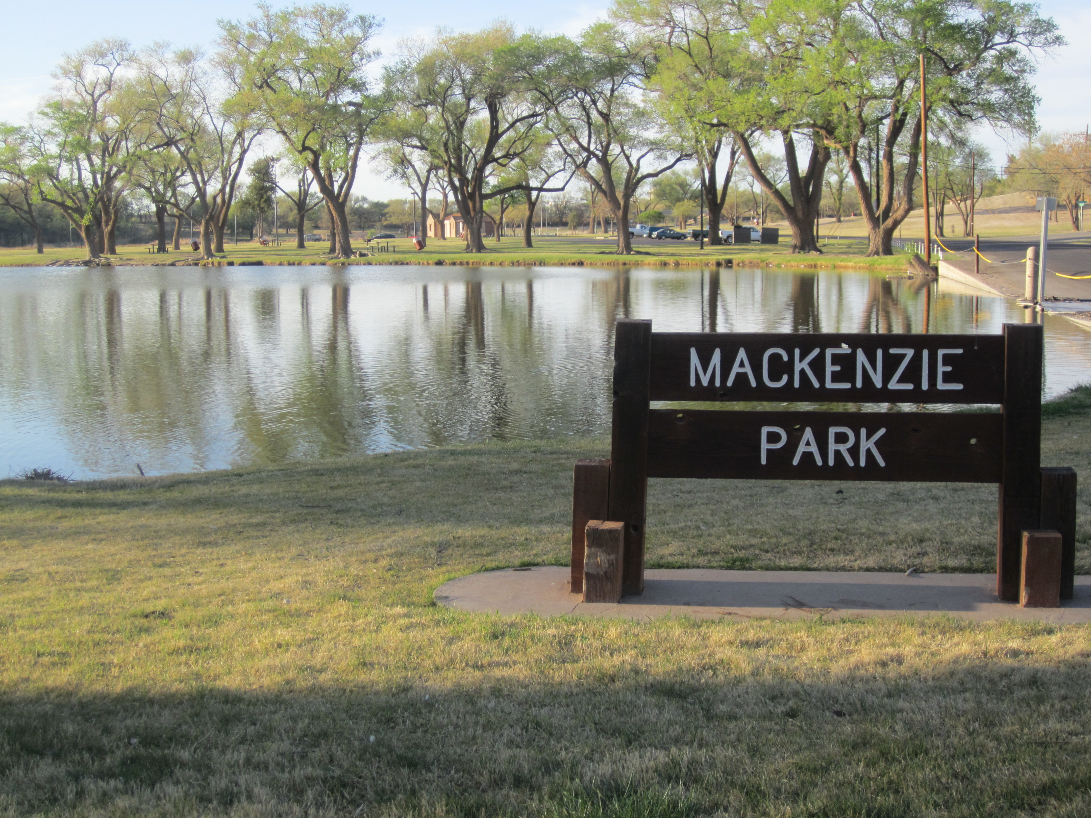 Mackenzie Park in Lubbock, Texas. I took photo with Canon camera in Lubbock, TX.